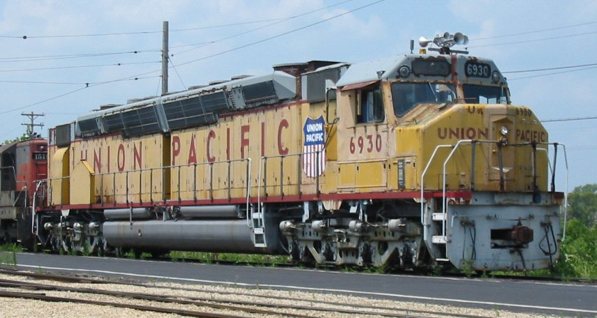 UP 6930, an EMD DDA40X preserved at the Illinois Railway Museum